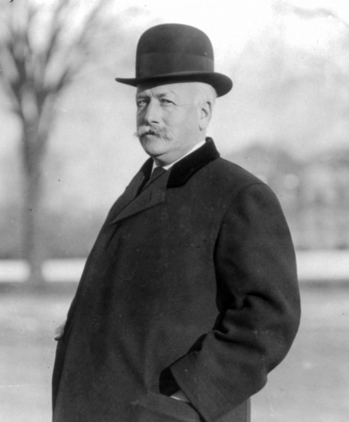 Charles G. Washburn, half-length portrait, standing, facing left